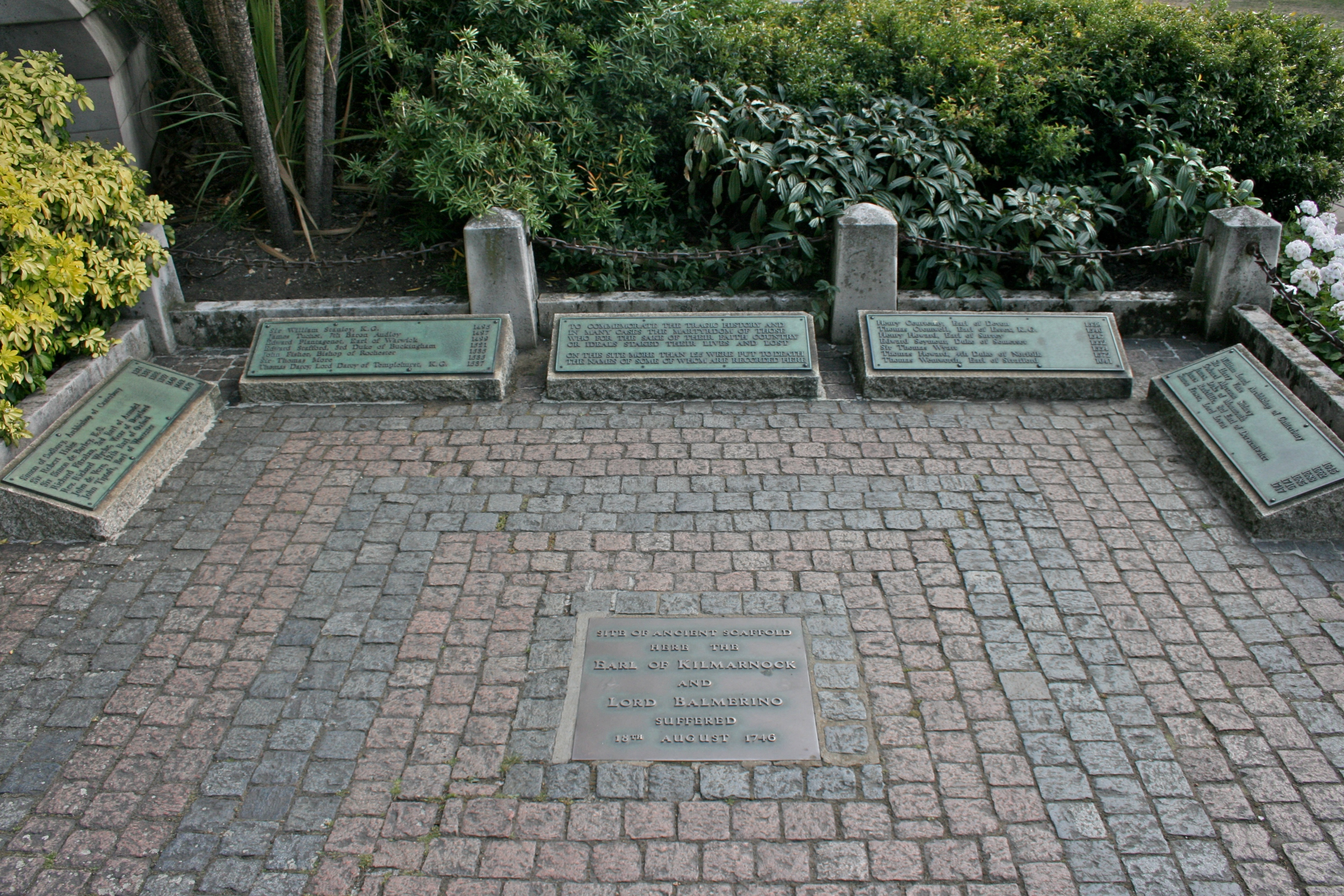 "Site of ancient scaffold. Here the Earl of Kilmarnock and Lord Balmerino suffered 17th August 1746" At Tower Hill.